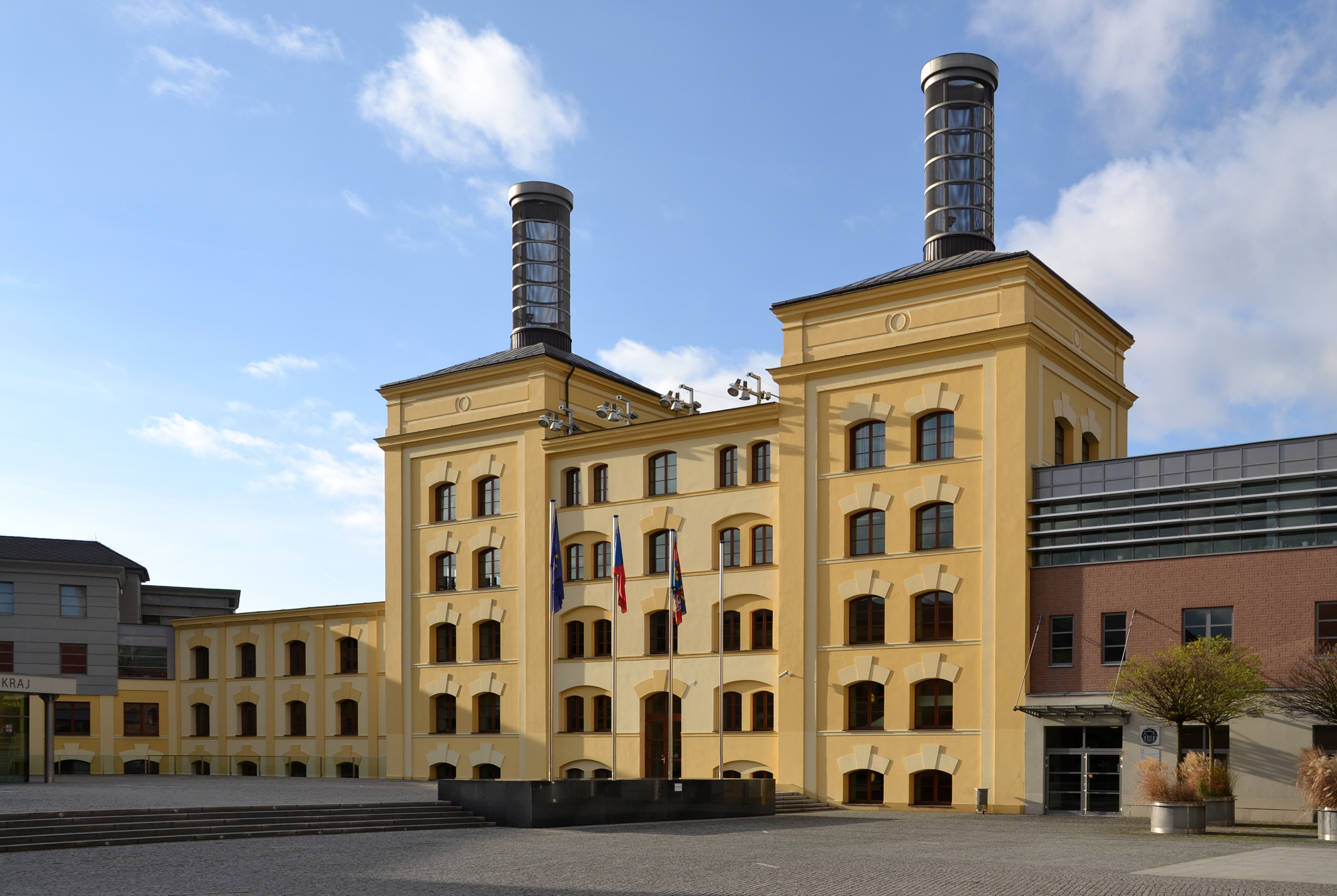 Hradec Králové (Königgrätz) - brewery